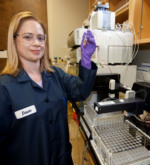 Dawn Shaughnessy has recently been appointed group leader for the newly created Experimental Nuclear and Radiochemistry Group, in the Chemical Sciences Division at Lawrence Livermore National Laboratory. Dawn is also the Responsible Scientist for radiochemical debris collection at the National Ignition Facility. In addition, she is the project leader of the Lawrence Livermore National Laboratory heavy element program, which announced discovery of element 117.